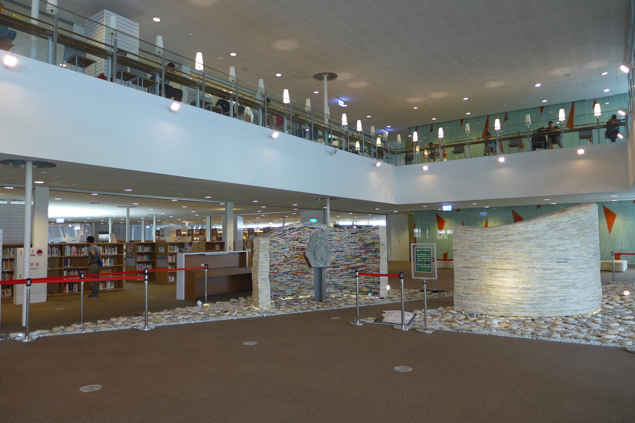 Kaohsiung Main Library Level 4 Exhibit area